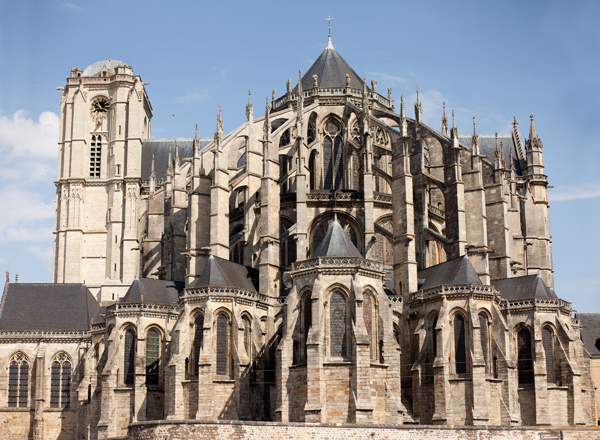 Cathédrale Saint-Julien; Le Mans, Sarthes, Pays de la Loire, France; ; ref: PM_093724_F_Le_Mans; ; Photographer: Paul M.R. Maeyaert; © Paul M.R. Maeyaert; ; Cultural heritage; Cultural heritage/Cathedral; Europeana; Europe/France/Le Mans